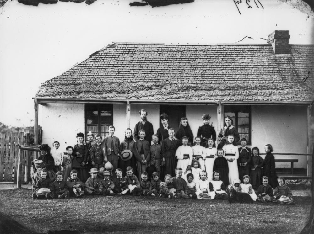 Sunday school class in the old Cleveland Court House, ca. 1871 For six years, before the opening of St Paul's Sunday School, local children assembled for Sunday instruction in this cottage, which was erected in 1854 for his timber workers by Francis Bigge, a Cleveland identity and sawmill proprietor. It stood on the corner of Shore street. The building also was used as Cleveland's first police station and a court-house. At far right in the top row is teacher Mrs Sherrin.